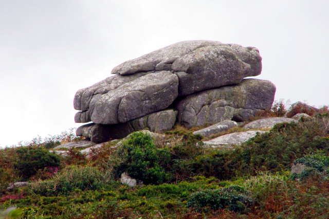 Twelve O'Clock Rock, Trink Hill This hunk of granite perches on the southern slope of Trink Hill, a prominent feature on this side of the hill. The rock is also known as the Twelve-O'Clock Stone after the folklore associated with it. From Popular Romances of the West of England: "NUMBERS of people would formerly visit a remarkable Logan stone, near Nancledrea, which had been, by supernatural power, impressed with some peculiar sense at midnight. Although it was quite impossible to move this stone during daylight, or indeed by human power at any other time, it would rock like a cradle exactly at midnight. Many a child has been cured of rickets by being placed naked at this hour on the twelve-o'clock stone. If, however, the child was "misbegotten," or, if it was the offspring of dissolute parents, the stone would not move, and consequently no cure was effected."